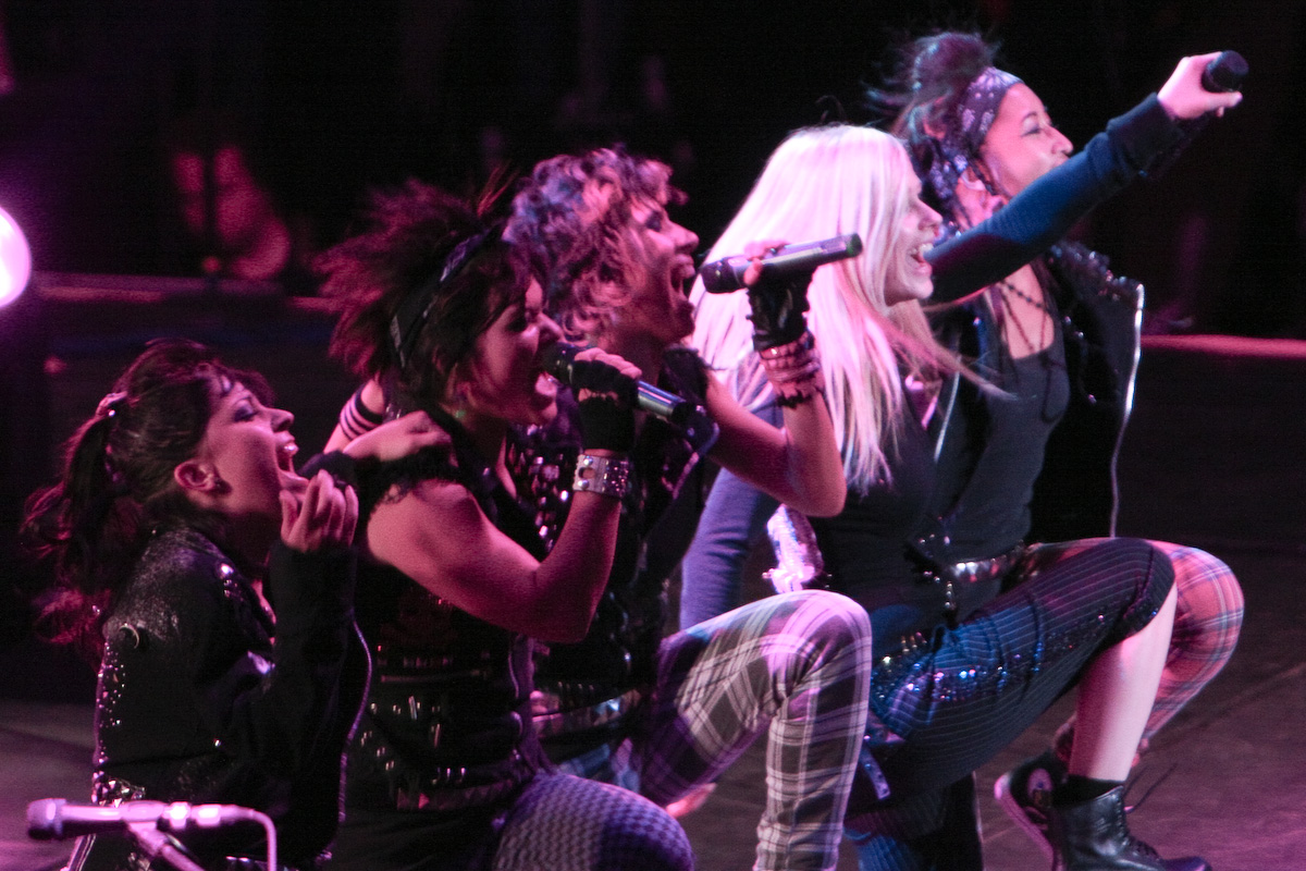 Avril Lavigne "The Best Damn Tour" @ Beijing Wukesong Arena